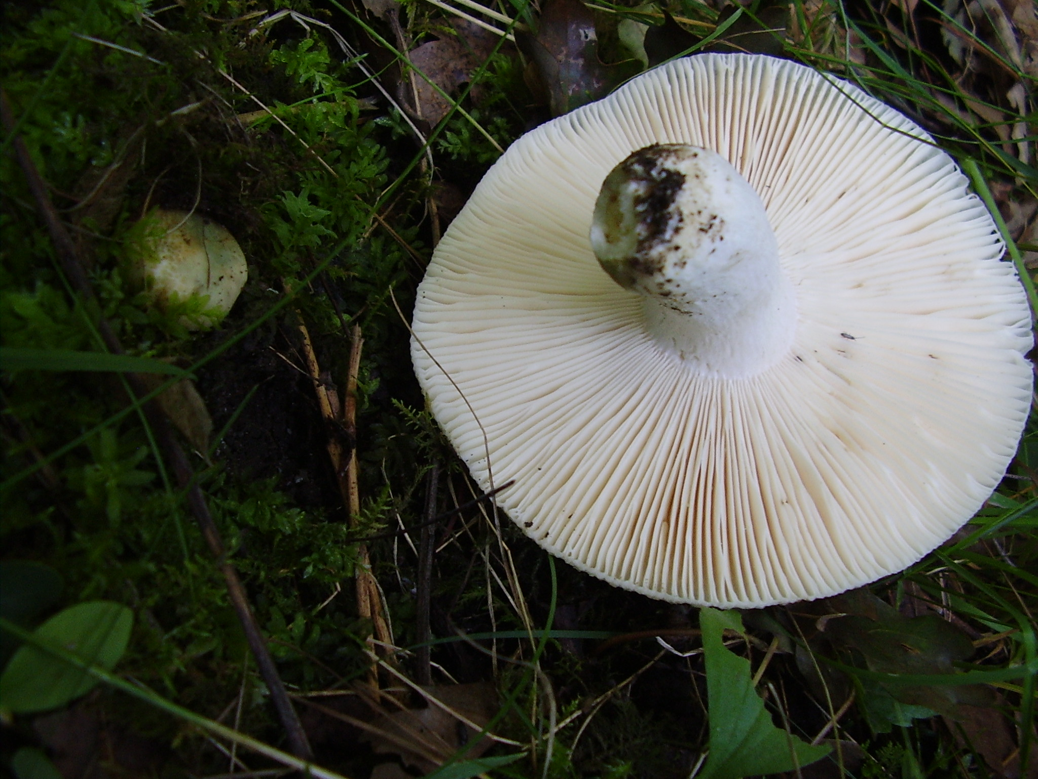 Russula virescens button and underside from oak forest in western Bulgaria.